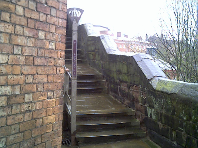 The Wishing Steps on the City Wall. If you can run up and down the steps three times while holding your breath. You will get your wish granted!